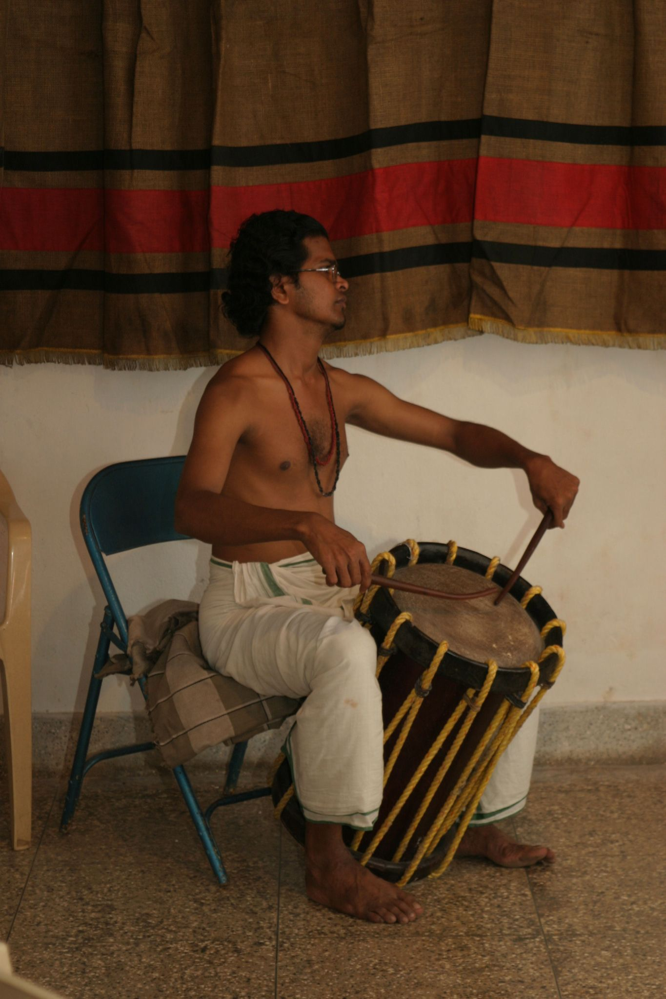 One of the major distinguishing features of Kathakali is the absence of oral communication. A considerable part of the script is in the form of lyrics, sung by vocalists. The only accompaniments are percussion instruments. This is a Chenda (Drum played with sticks)